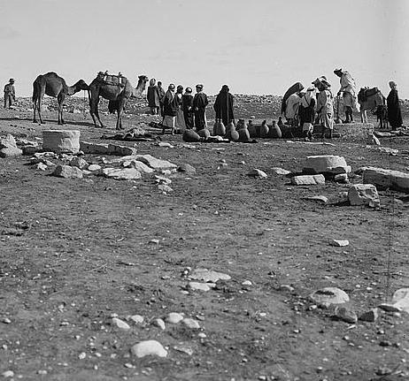 Bedouins at the well at al-Khalasa